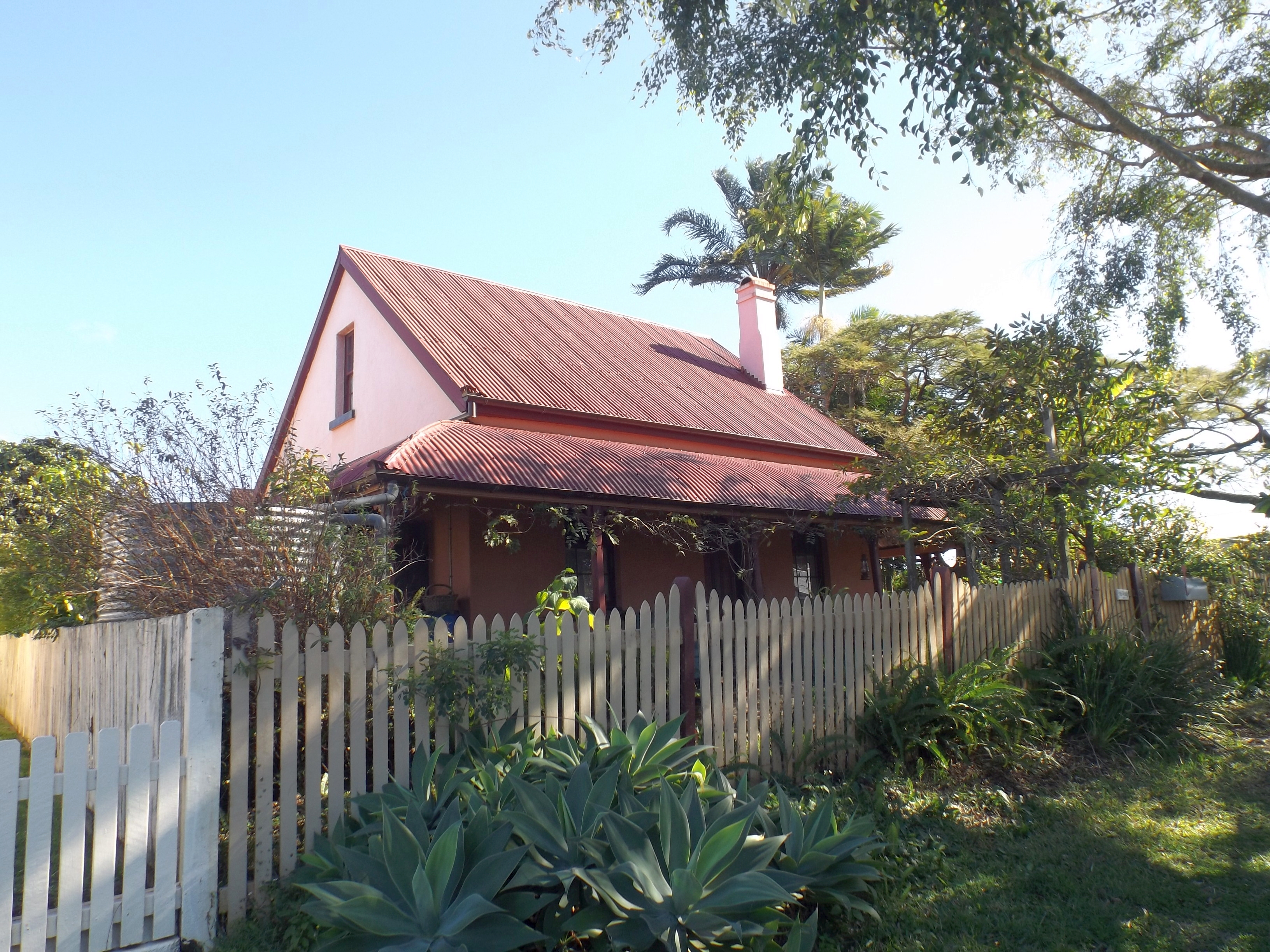 Photo of the Grange residence at Windsor, Brisbane, Queensland, Australia.